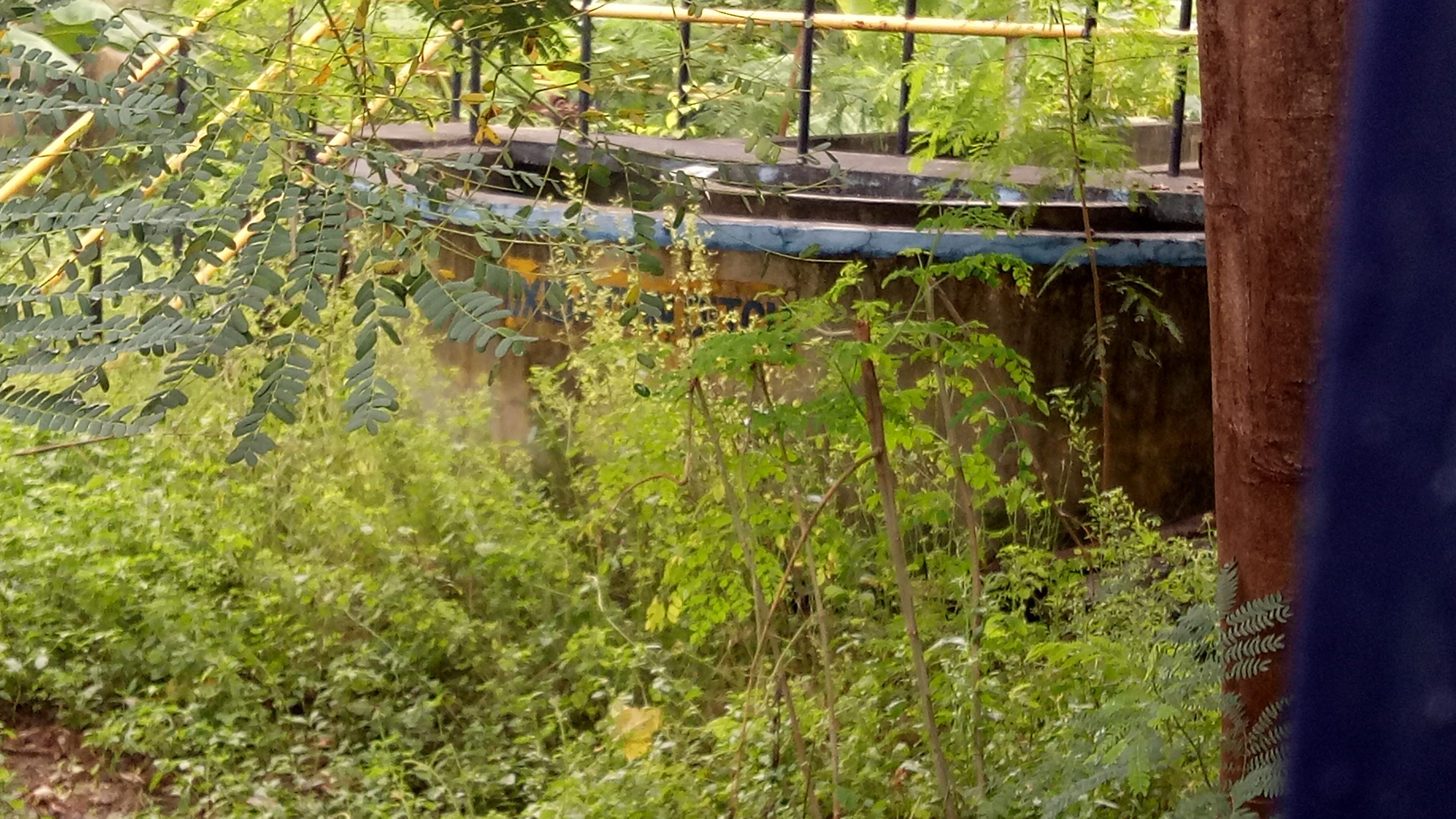 A unit of Sewage and waste water treatment plant, Chitlapakkam. Located in Balaji avenue near "Sembakkam" lake.